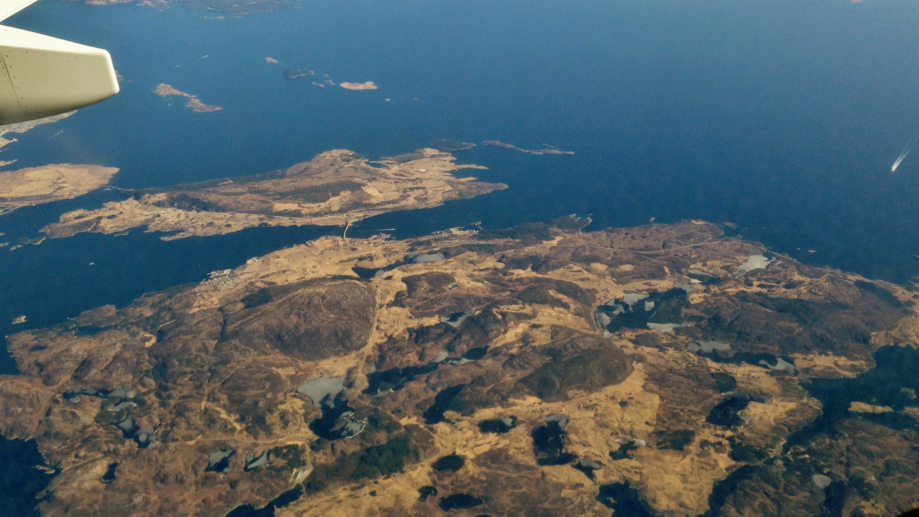 Islands Austre Bokn (top) and Vestre Bokn (bottom) in Rogaland, Norway